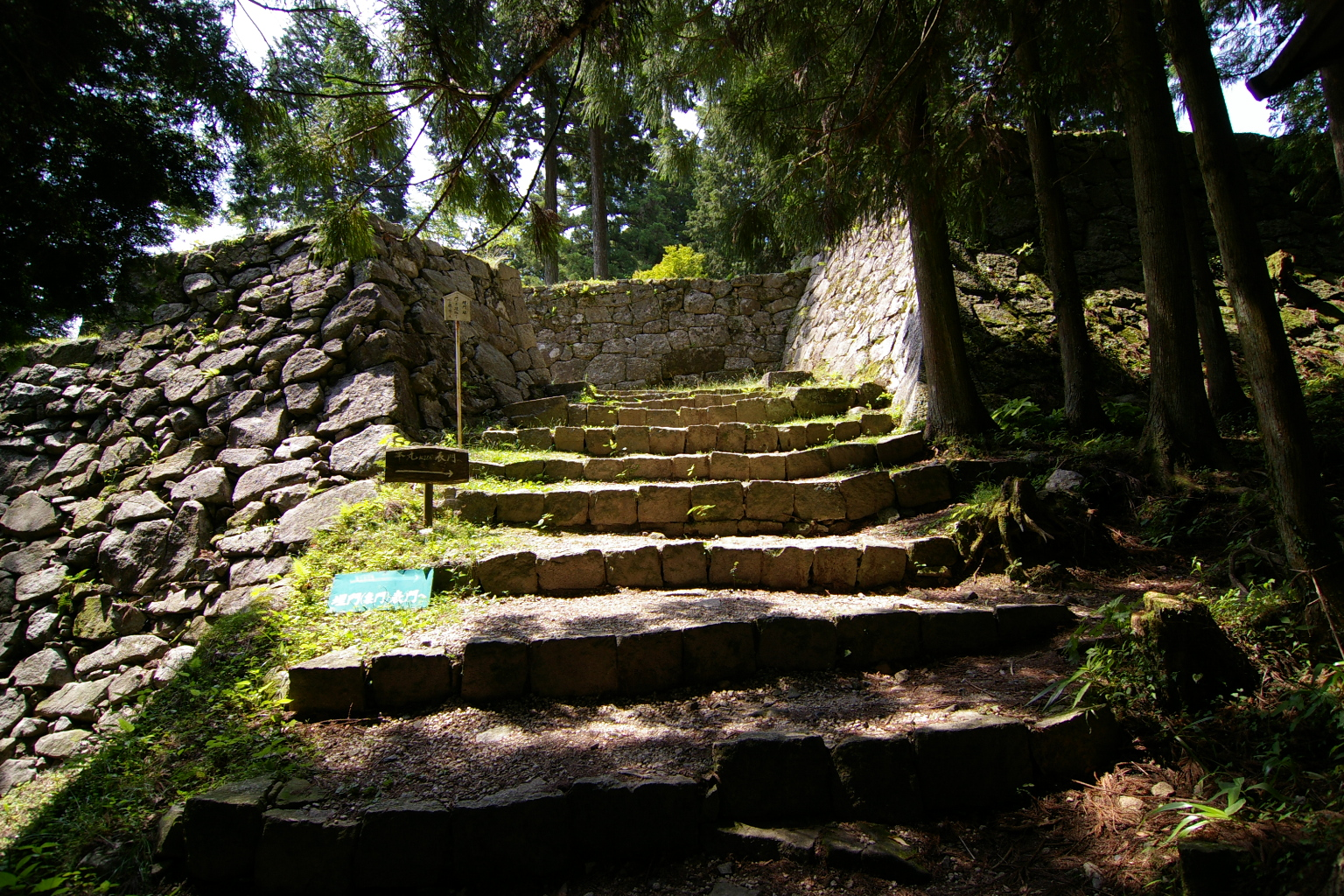 Iwamura Castle (Agi Nakatsugawa City, Gifu Pref, Japan)